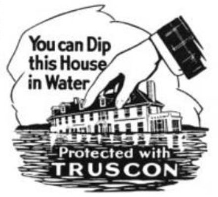 Truscon laboratories secondary logo and slogan of "You can Dip this House in Water" to show how waterproof their products were.